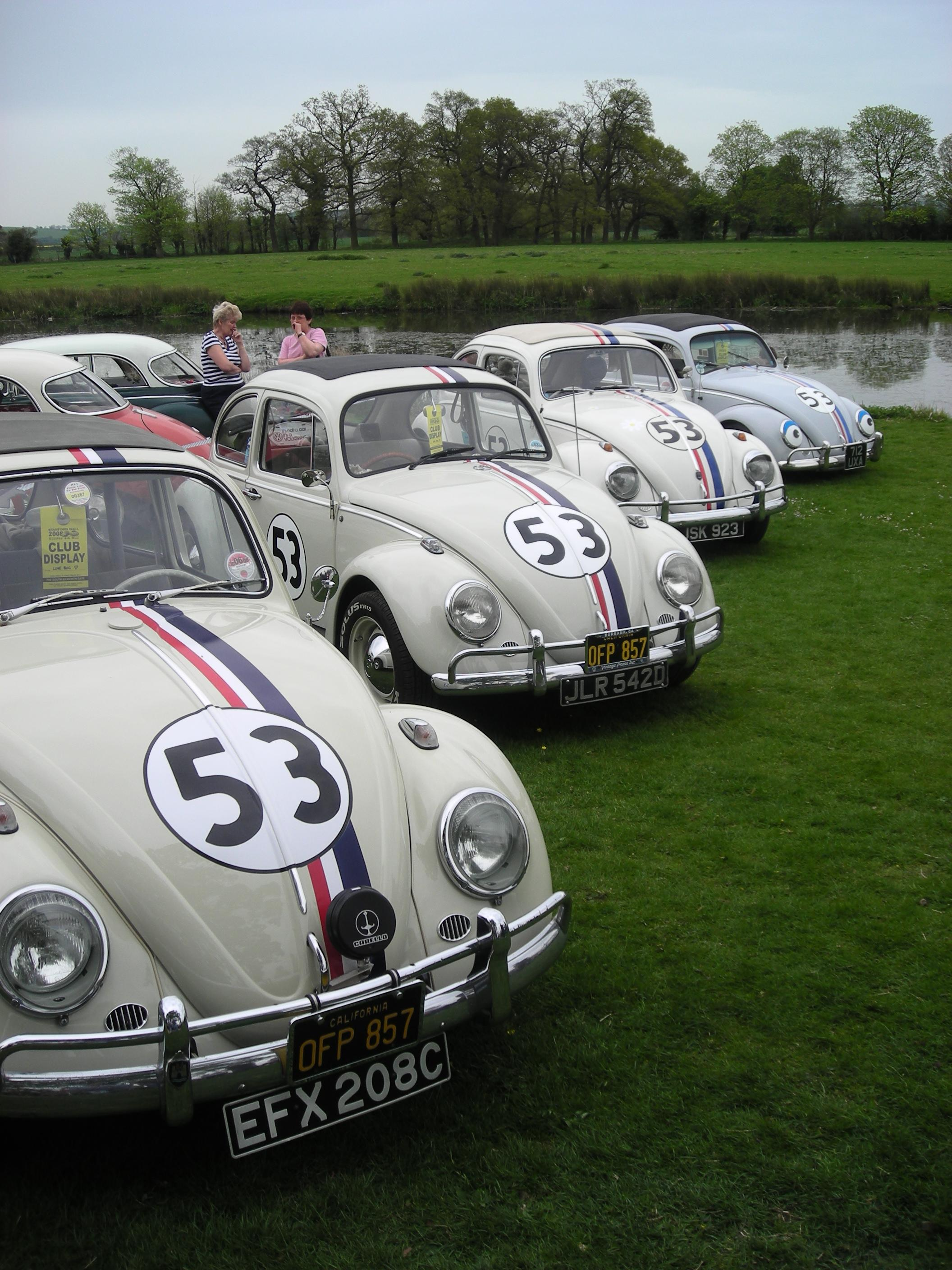 A number of VW Beetles painted like Herbie. Herbie replicas.